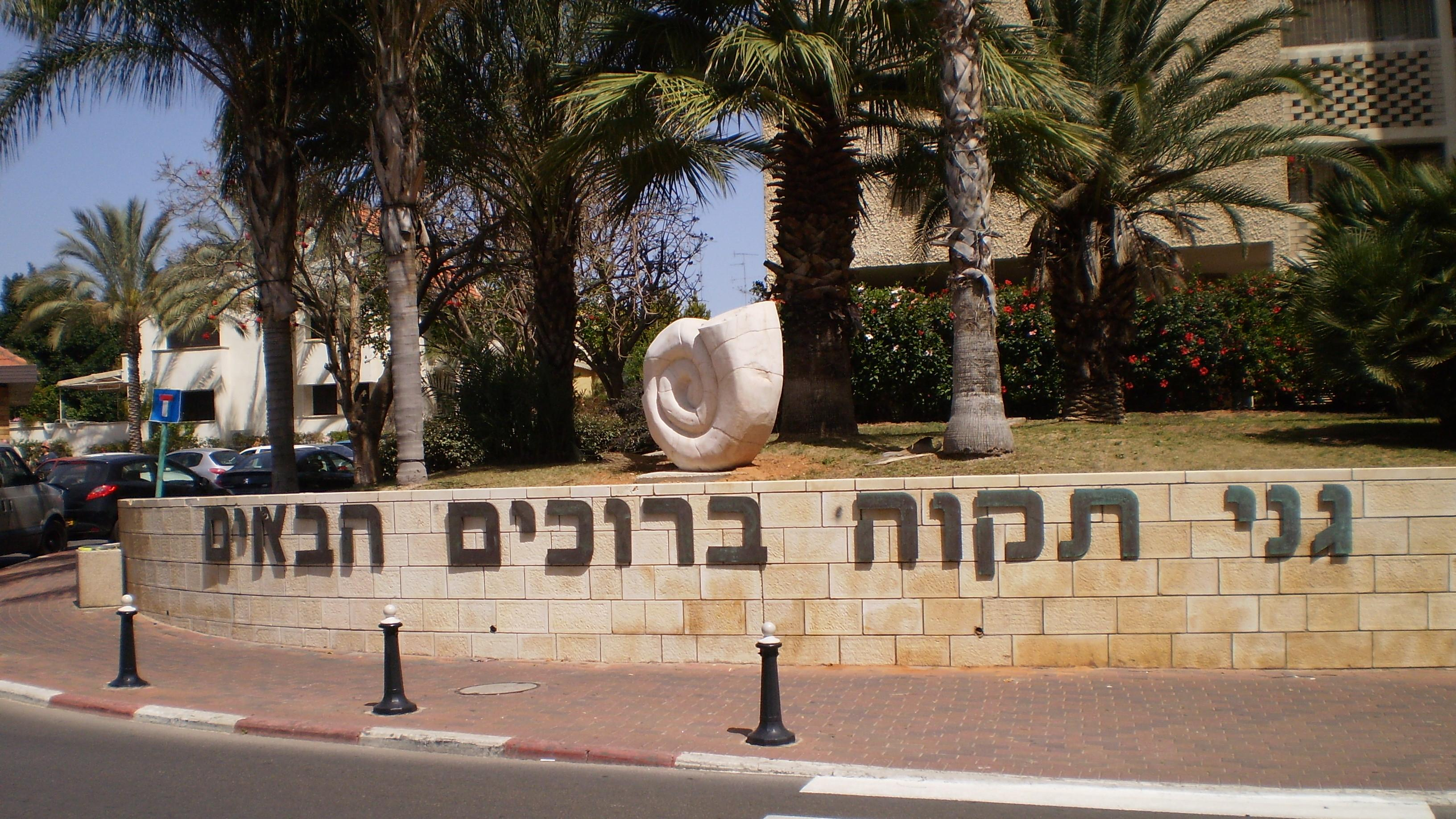 Welcome to Ganey Tikva